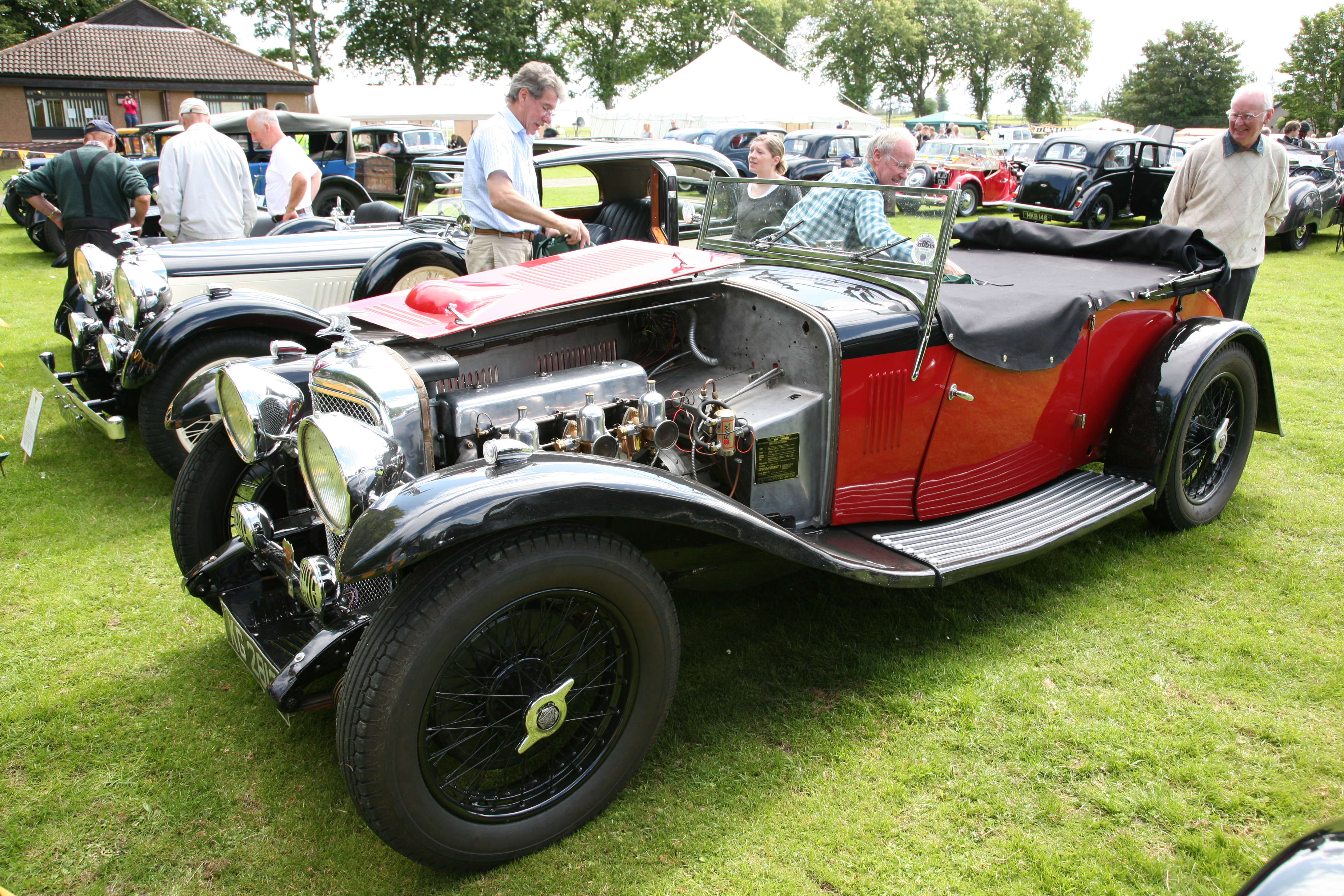 Alvis Speed 20 SA 1933 2-door 4-seater tourer body by Vanden Plas